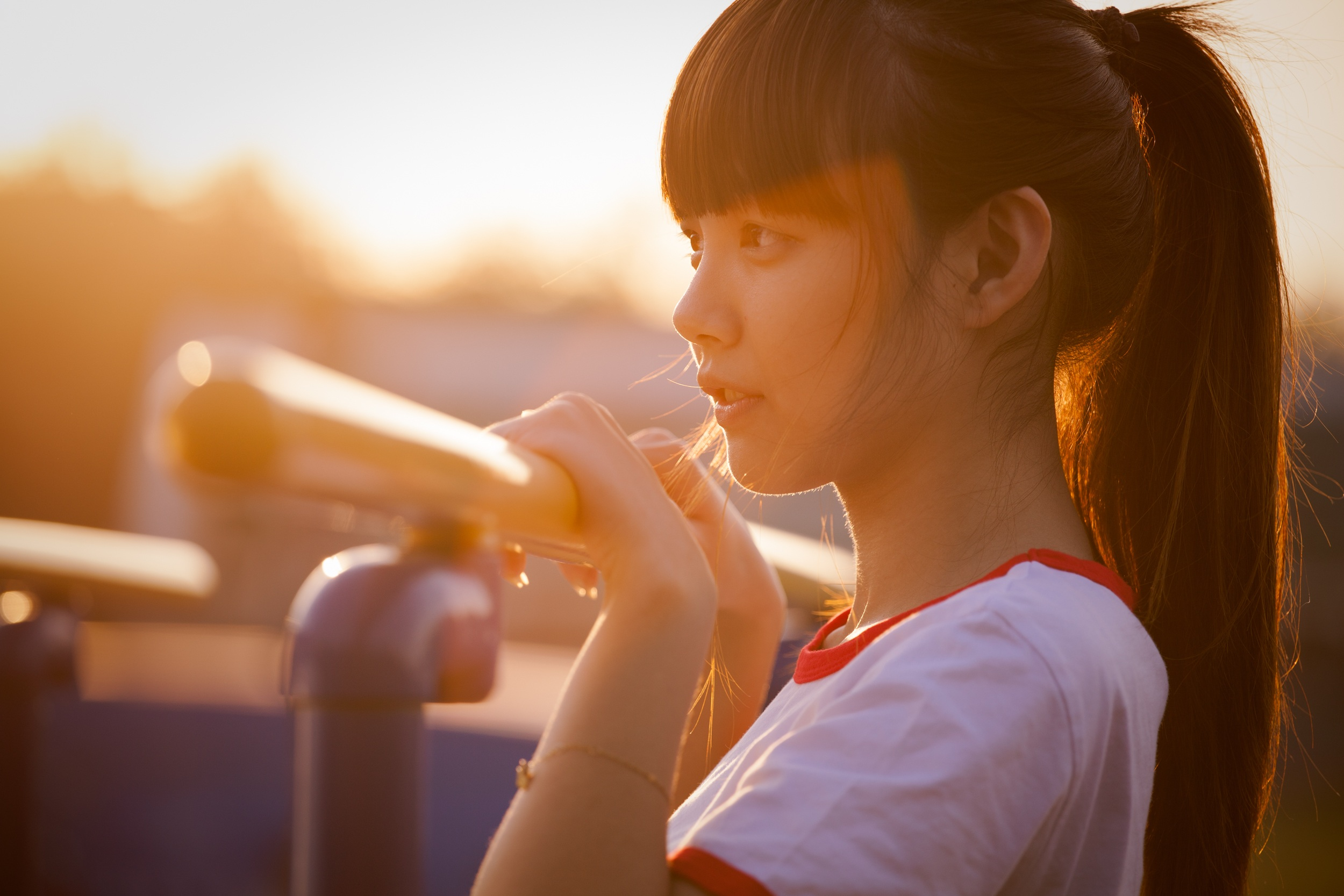 as shown.